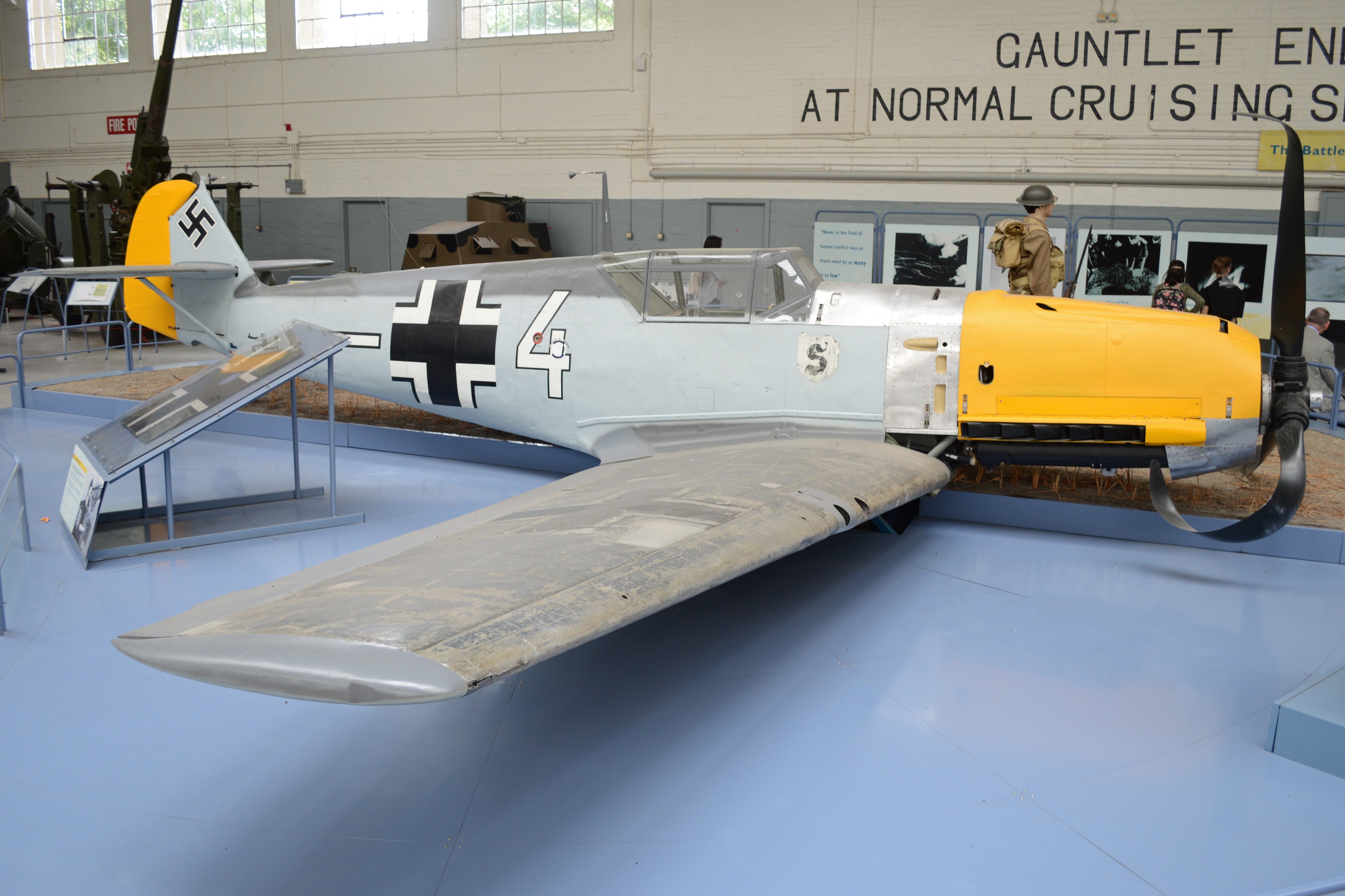 This Messerschmitt Bf-109E-3 (s/nr 1190) belonging to the 4th Staffel of Jagdgeschwader (fighter group) 26 (4/JG26) was flown by 22-year-old UnterOfficier Horst Perez from Marquise-Est in France on September 30, 1940 when he was shot down by Sgt. Kingsby of RAF 92 squadron flying a Spitfire over Beachy Head and belly-landed wheels up at East Dean, near Eastbourne, Sussex. Perez surrendered to P.C. Walter Hyde and the local Home Guard, who shot Perez in the hand and jaw while he was surrendering. The aircraft was was sent to Canada for evaluation. While there its original engine was lost. Originally Gruppenkommandeur Karl Ebbighausen's aircraft, he was also shot down in another Bf-109E-4 on August 16, 1940. His five victory markings are marked on the tail, two Dutch aircraft, one french, and two British. 1190 was manufactured in Leipzieg on September 18, 1939 as a Bf-109E-3 with a Daimler-Benz DB601A engine. Later it received the DB-601N, a more powerful engine, upgrading its version to 4/N. It is displayed in an 'as found' although partly restored condition at the Imperial War Museum, Duxford. UK. 25th June 2017